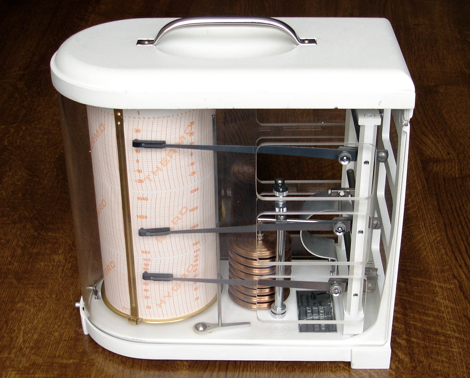 Baro- Thermo- Hygrograph